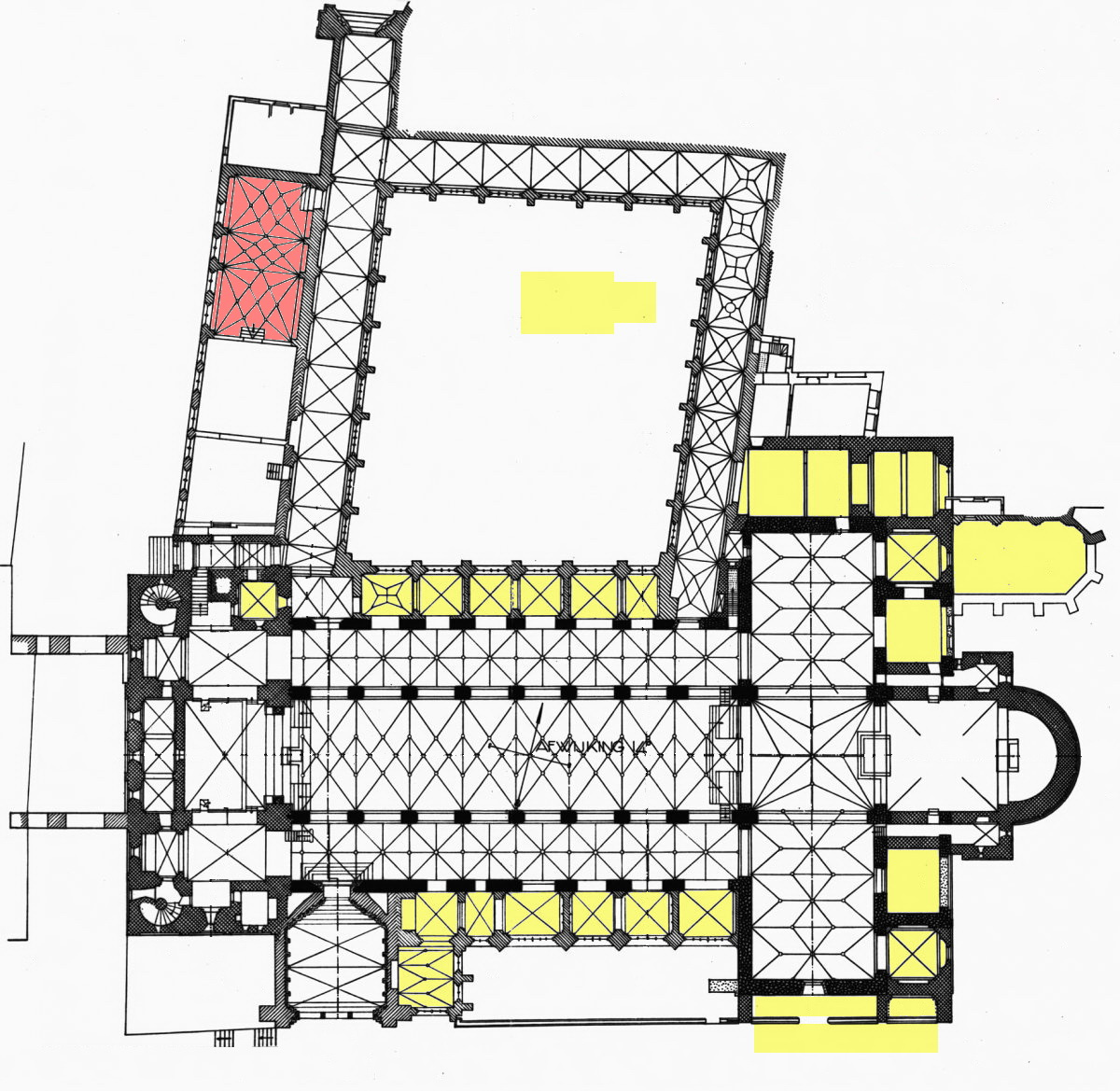 Locator map of chapels of the Basilica of Saint Servatius in Maastricht, the Netherlands. This map by an unknown author was first published in 1926 in Van Nispen tot Sevenaers De monumenten in de gemeente Maastricht, Deel 1, and donated to Wiki Commons by Rijksdienst voor het Cultureel Erfgoed on 7 January 2013. All colouring and other edits are by Kleon3. In yellow all 17 chapels of Sint-Servaasbasiliek in past and present. In red the day chapel or chapel of Saint Servatius in the cloisters.